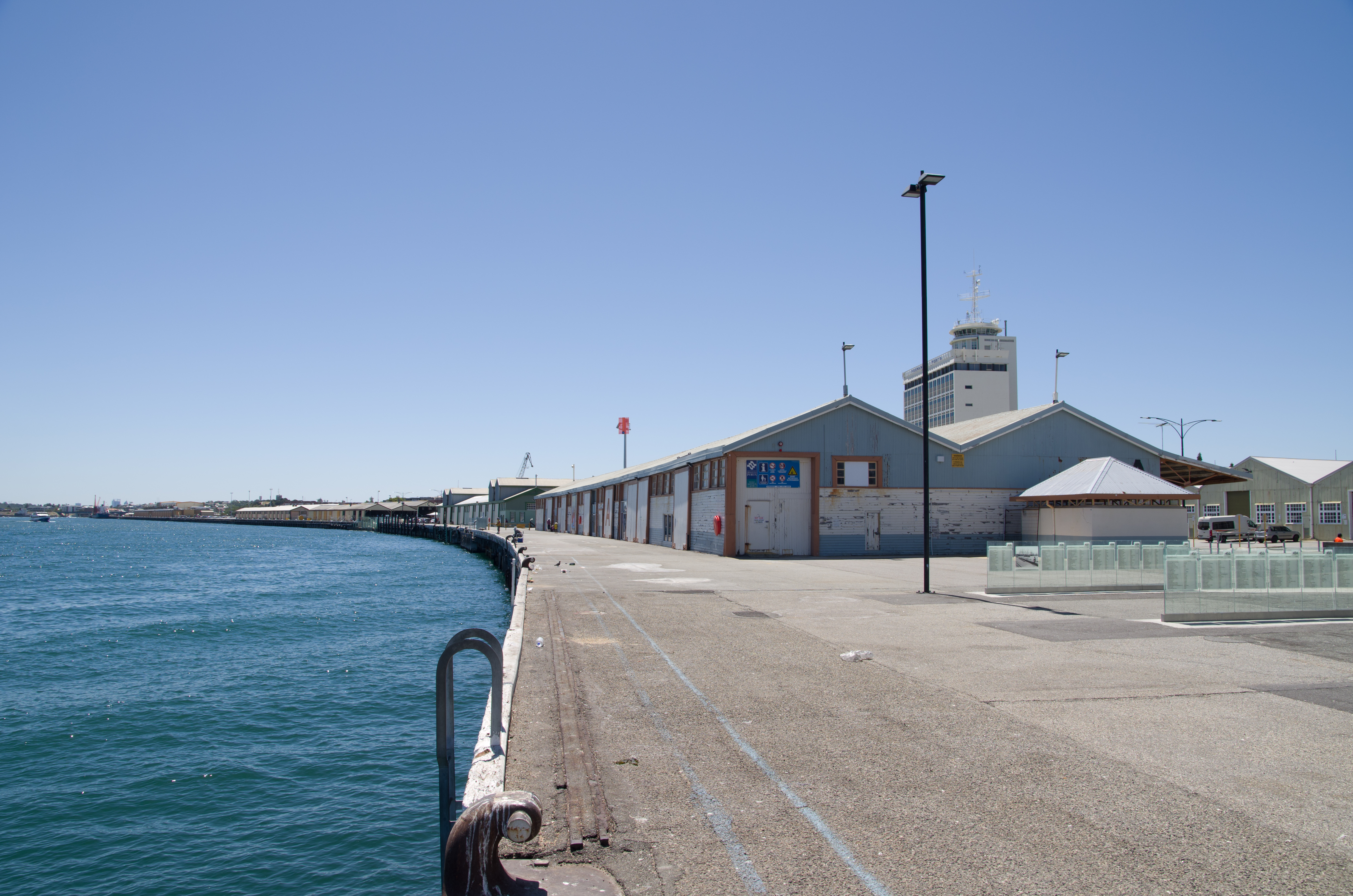 Victoria Quay Object location32° 03′ 15.93″ S, 115° 44′ 19.41″ E wharf of Victoria Quay from